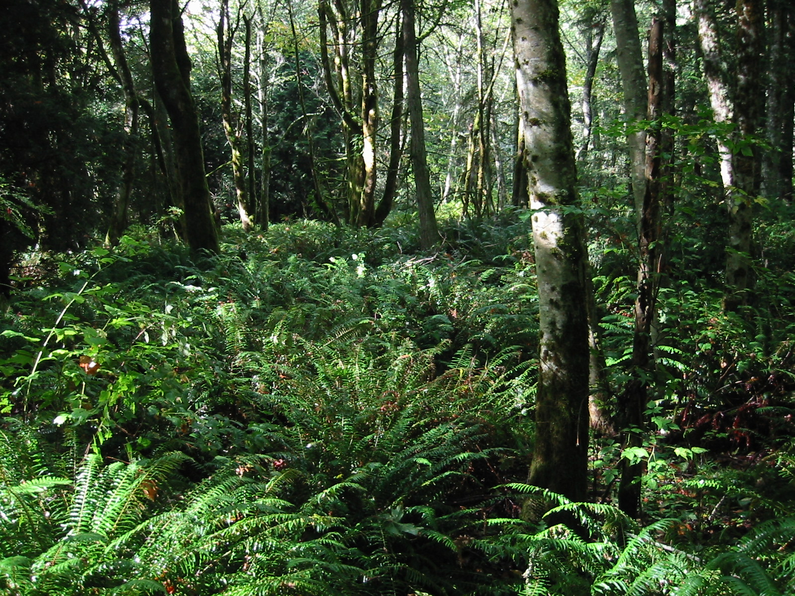 Red Alder forest. A few Bigleaf Maple and Western Hemlock are in the background. Sword fern grows on the forest floor.